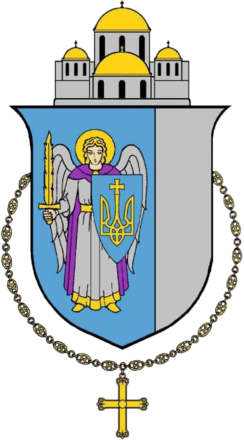 Coat of arms of the Right-bank Kyiv Protopresbytery of the UGCC